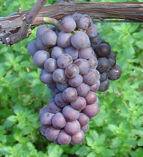 A bunch of Pinot gris grapes.